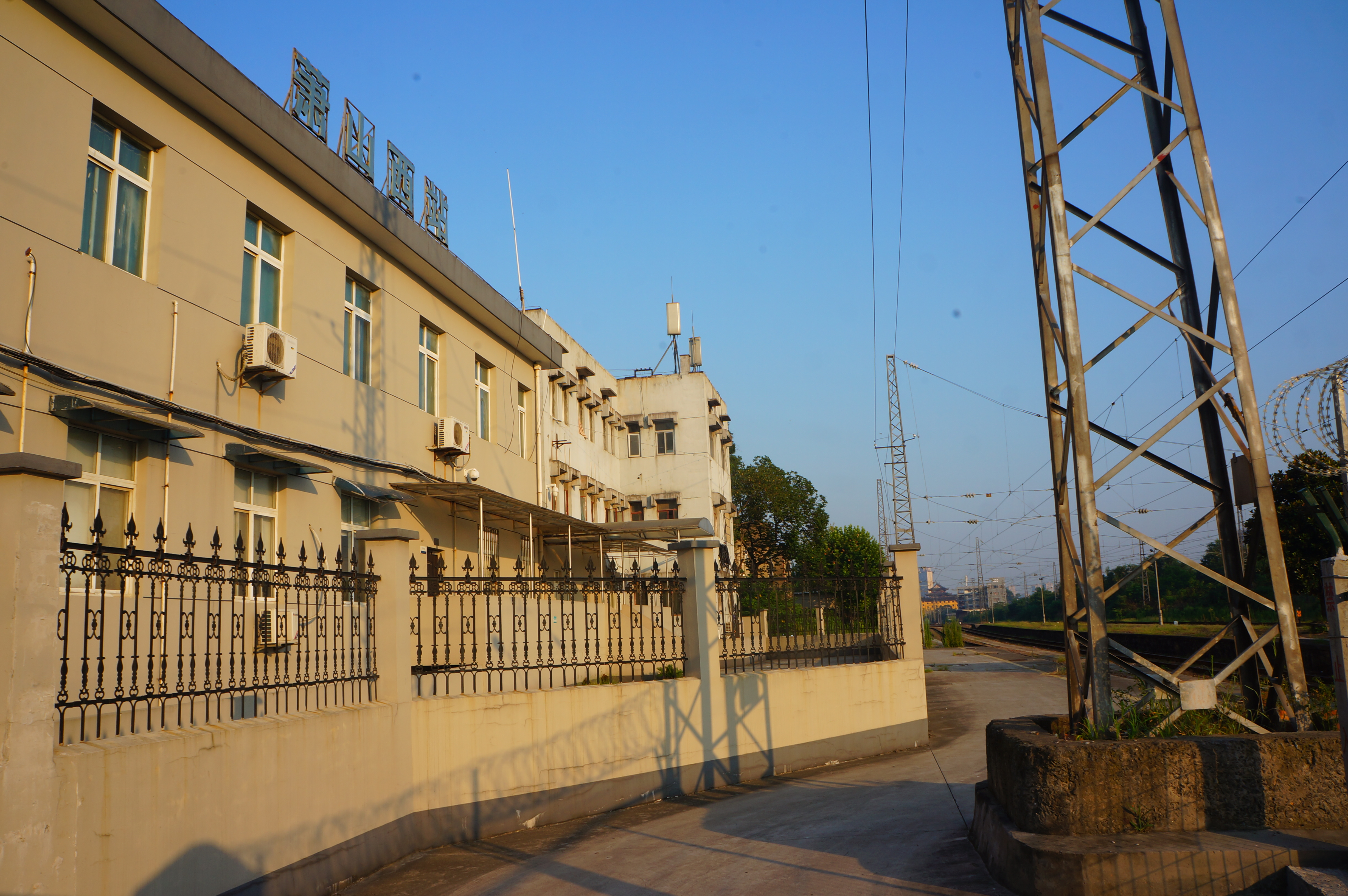 201607 Conductor of Xiaoshanxi Station